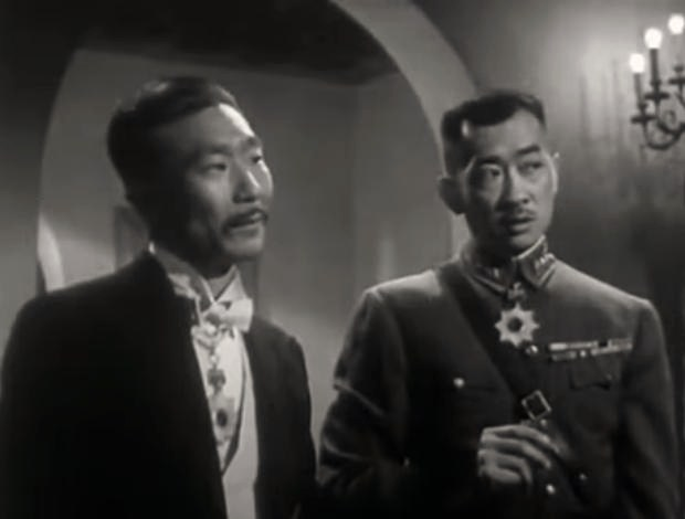 Philip Ahn (left) and Richard Loo in Women in the Night - cropped screenshot